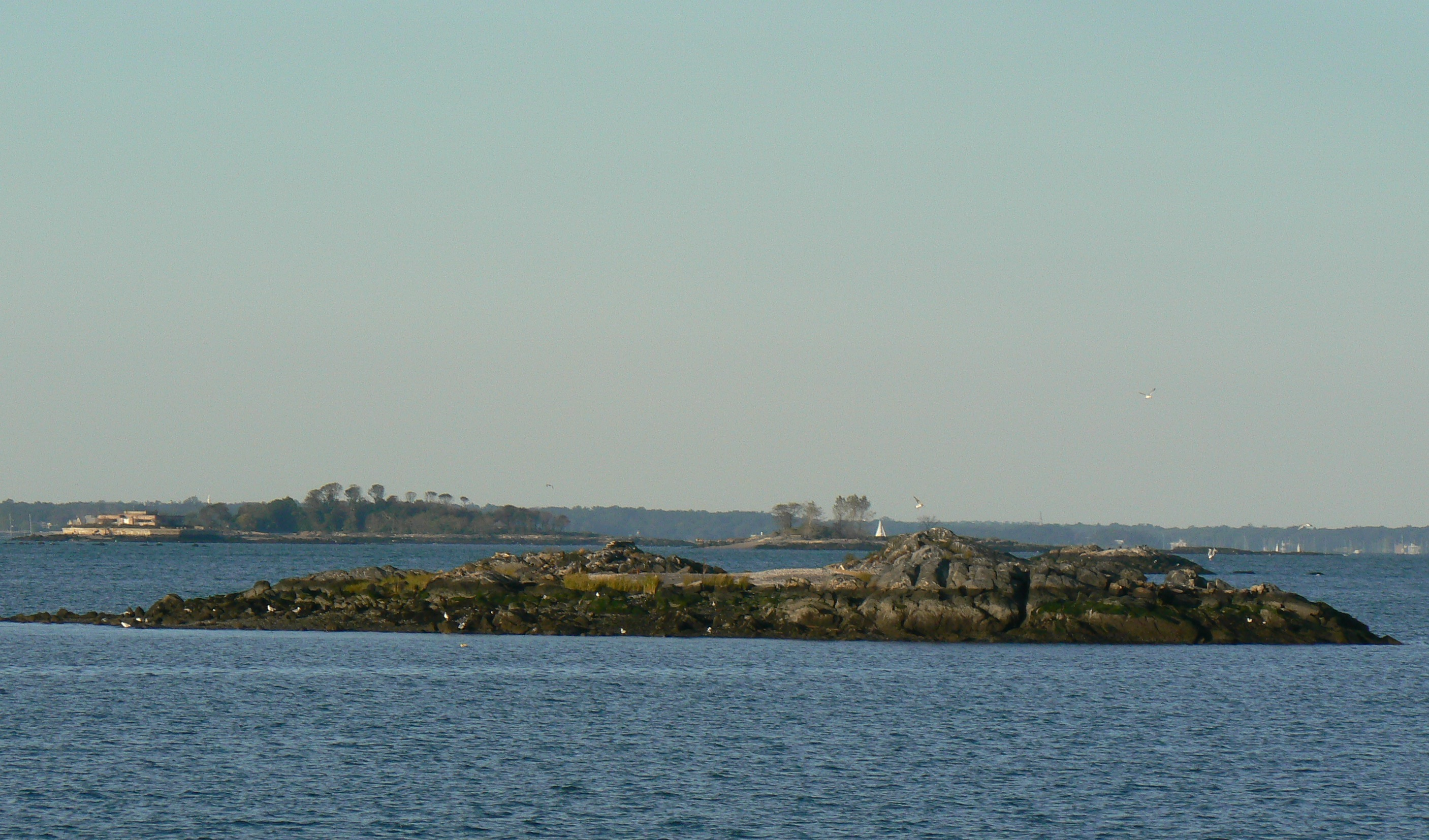 I, User:Stercus.caput, authored this picture. This is Rat Island, in Long Island Sound, as seen from City Island.